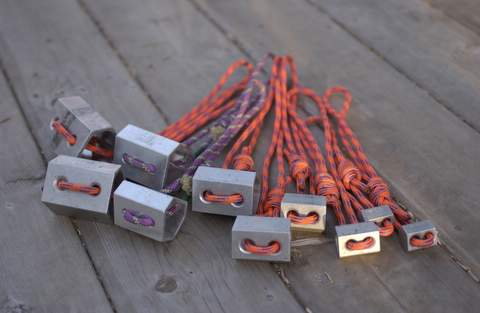 A set of Black Diamond Hexcentrics, a piece of rock climbing equipment